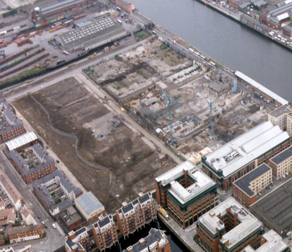 Phase 2 International Financial Services Centre before commencement